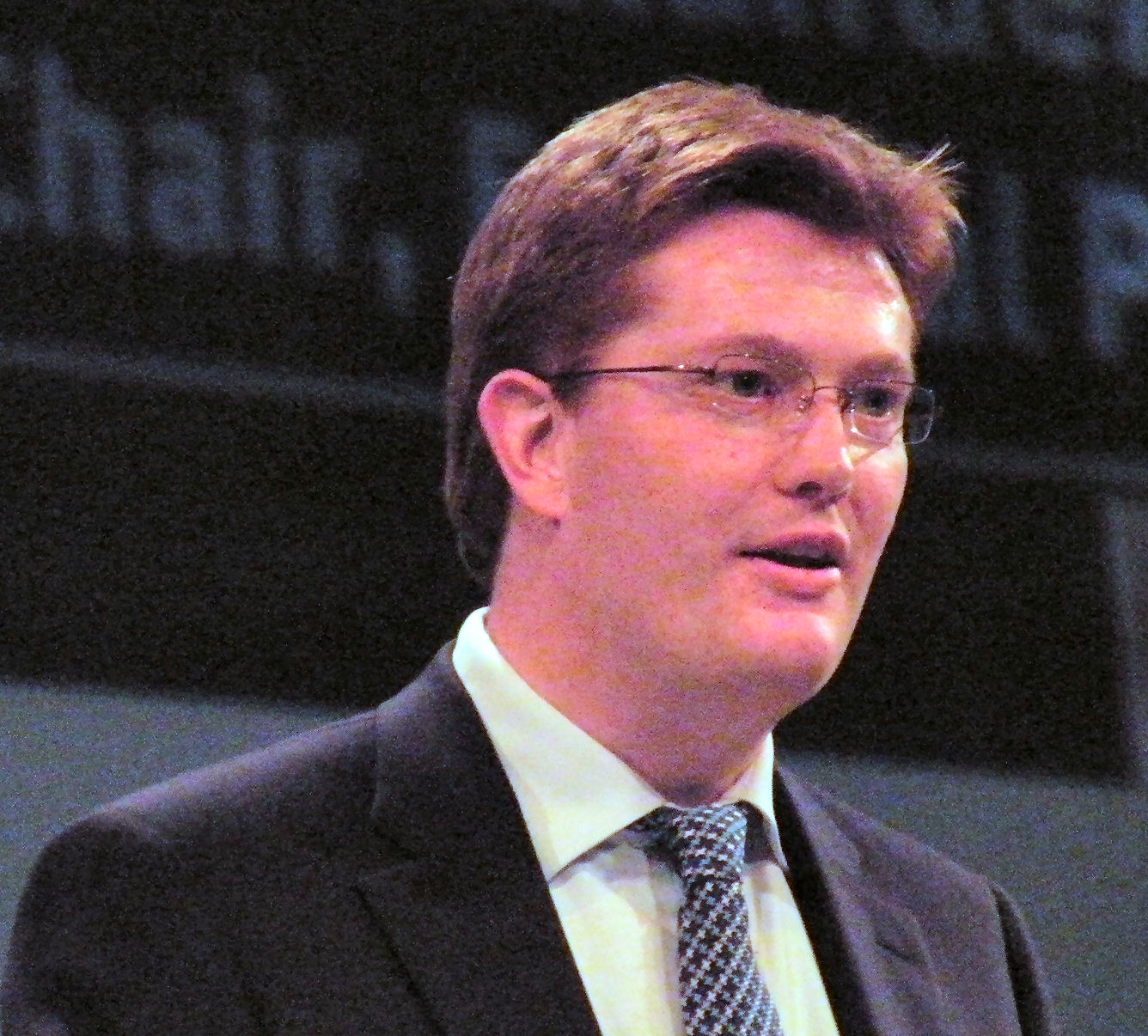 Danny Alexander MP addressing a Liberal Democrat conference in the Bournemouth International Centre